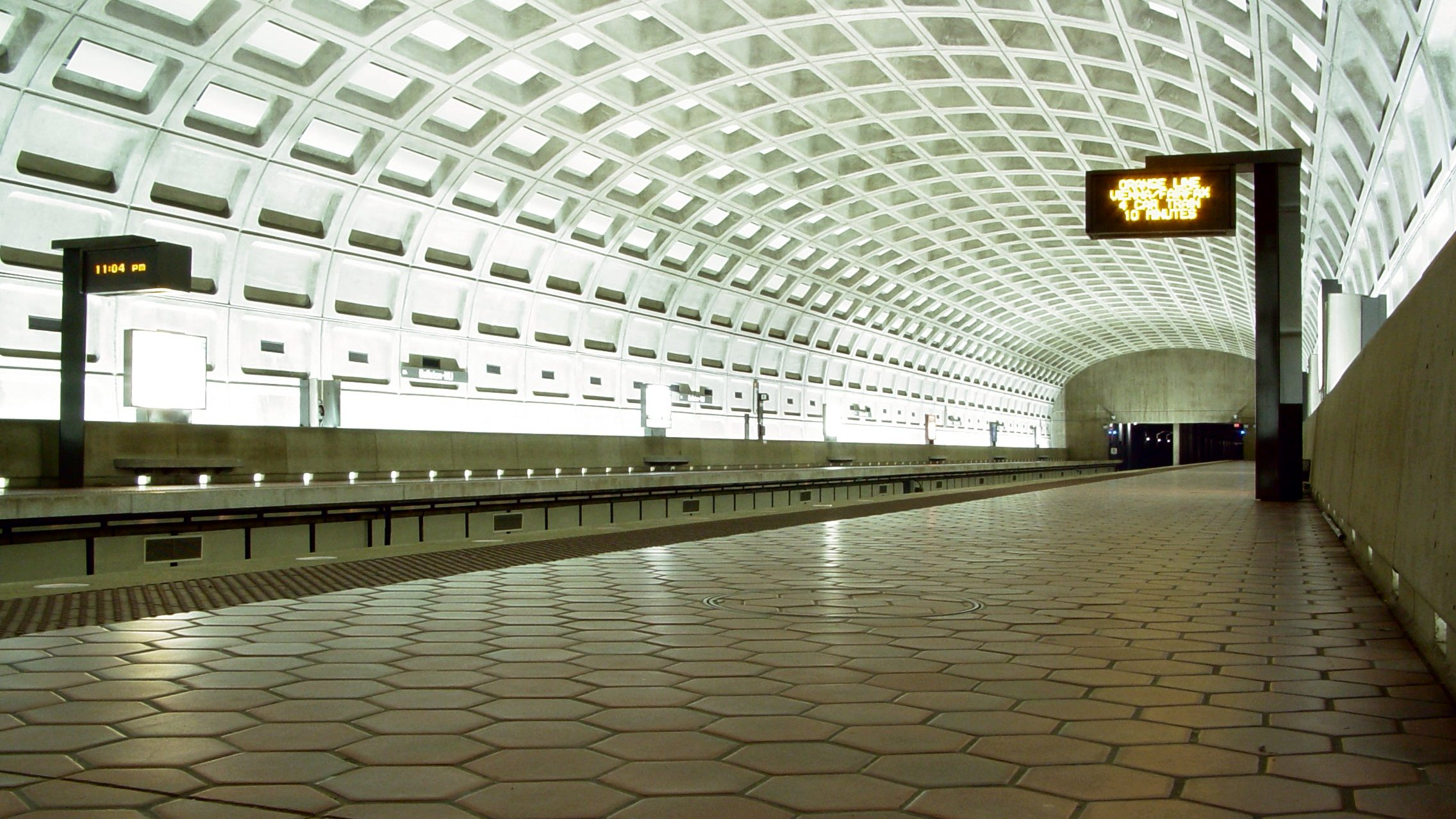 Long-exposure photo of Ballston-MU station.